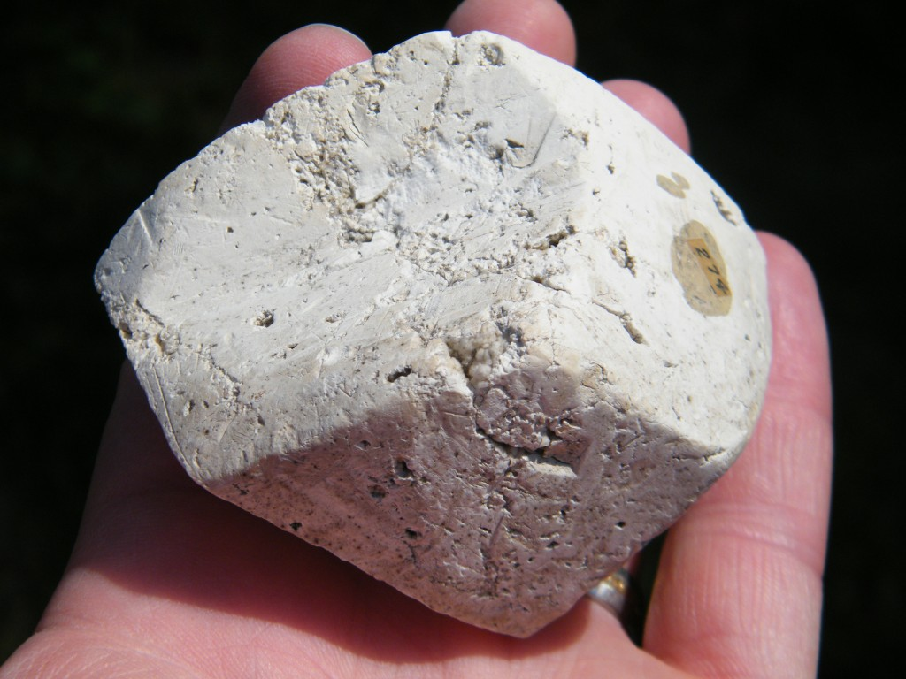 Sepiolite (Dimensions: 3" x 2.5" x 2.5") Locality: Eskişehir Province, Central Anatolia Region, Turkey Old specimen (with five [!] old labels) of Meerschaum ("sea foam"), in essence Sepiolite from Turkey used for carving smoking pipes and other gee-gaws. Forms as nodules in red clay, then cleaned and dried and carved. Turkey banned export of the nodules in the 1970s to encourage the growth of home-grown meerschaum pipe carving, but only managed to kill off the European meerschaum pipe carving industry. More of this fascinating story on Wikipedia. Details on the five labels for this specimen: old, hand-written [unintelligible owner name], J. Kenneth Fisher [Upper Darby, PA], John S. Albanese [Union, NJ], J. Cilen, and a modern label.